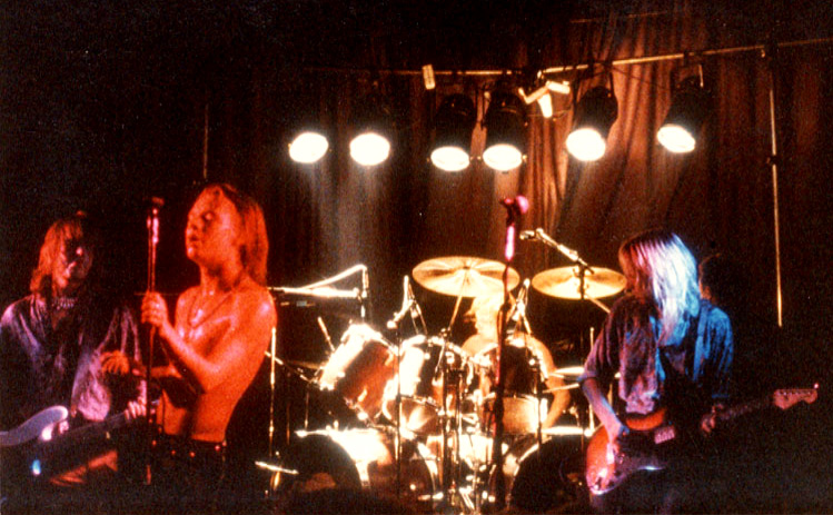 Finnish garage/glam rock band Smack on stage at Tavastia Club 1986